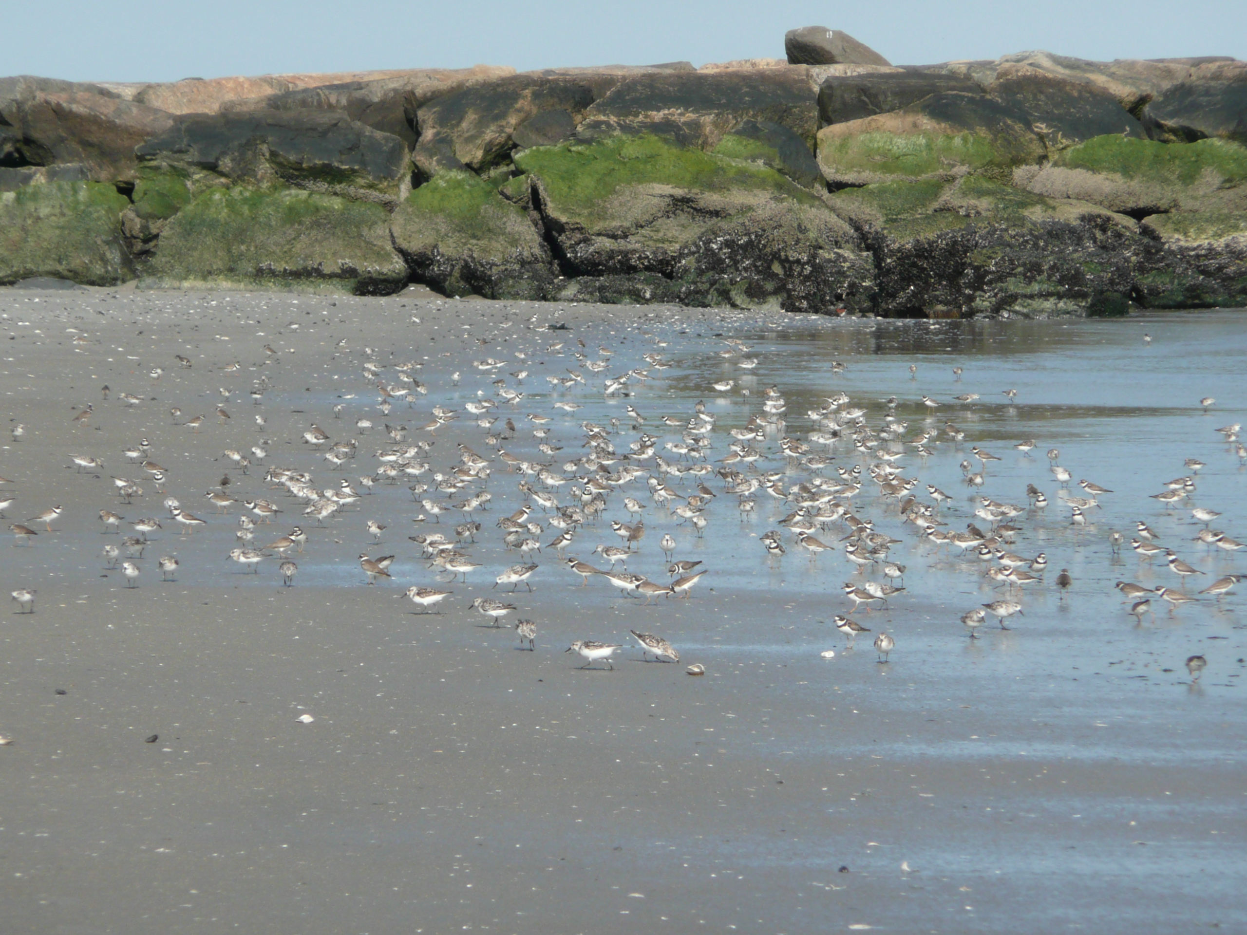 Rockaway Beach - Beach that inspired Ramones song Rockaway Beach - near the Queens, New York.